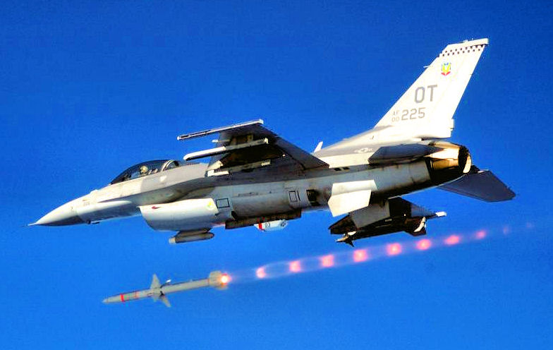 During the Air-to-Ground Weapons System Evaluation Program Combat Hammer, USAF Captain Thomas Seymour, pilot of the 86th FWS, fires an AGM-88 HARM from his F-16C #00-0225 at a target during a test mission conducted at Eglin AB on March 24th, 2003. [USAF photo by TSgt.T Michael Ammons]